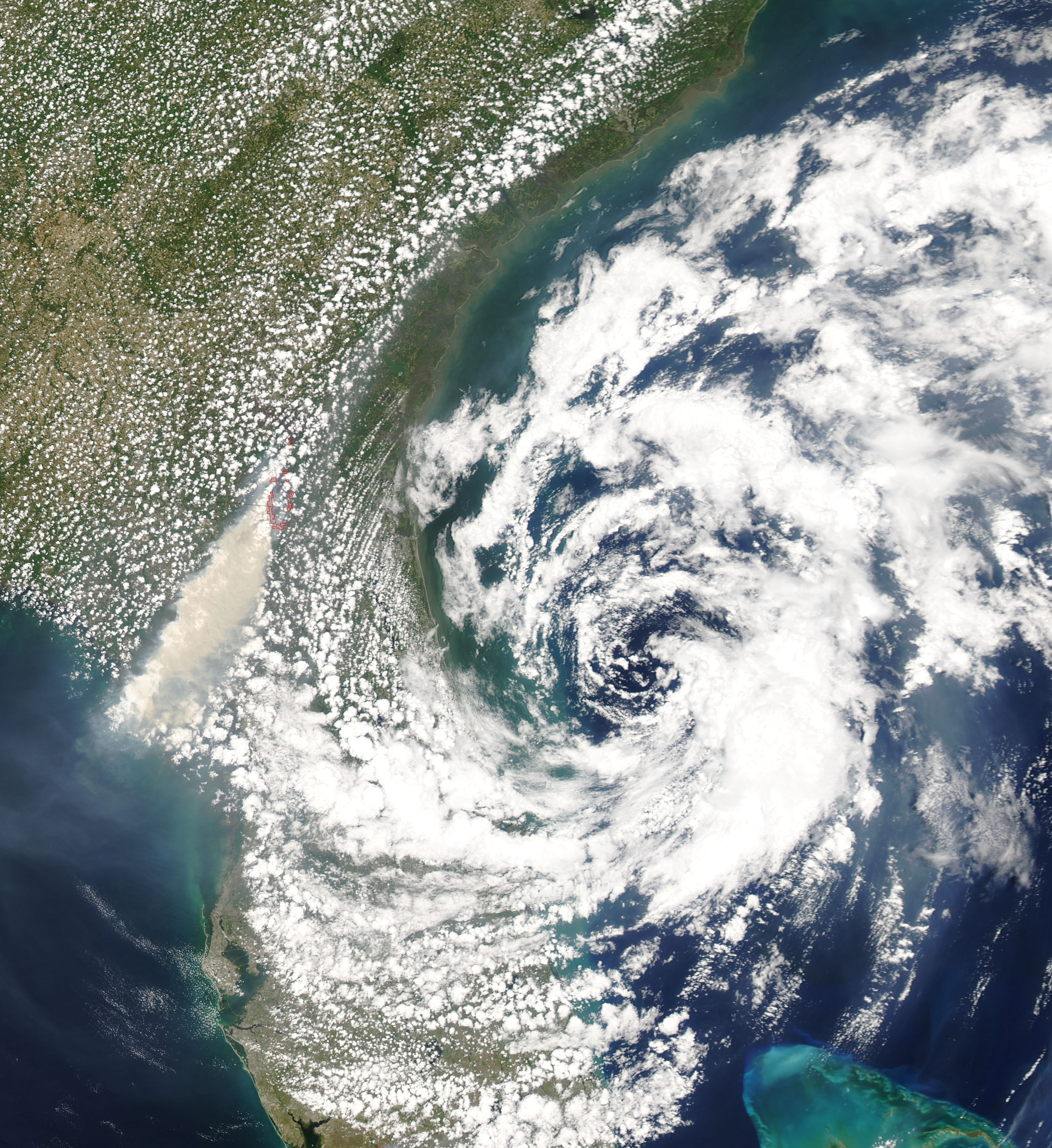 Subtropical Storm Andrea had weakened into a subtropical depression off the Florida coast when this image was taken by NASA's Aqua Satellite on May 10, 2007. The smoke plume from a major fire near the Florida/Georgia border is also visible in this image.